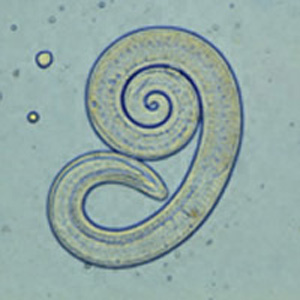 Trichinella spiralis larvae in pressed bear meat, partially digested with pepsin.